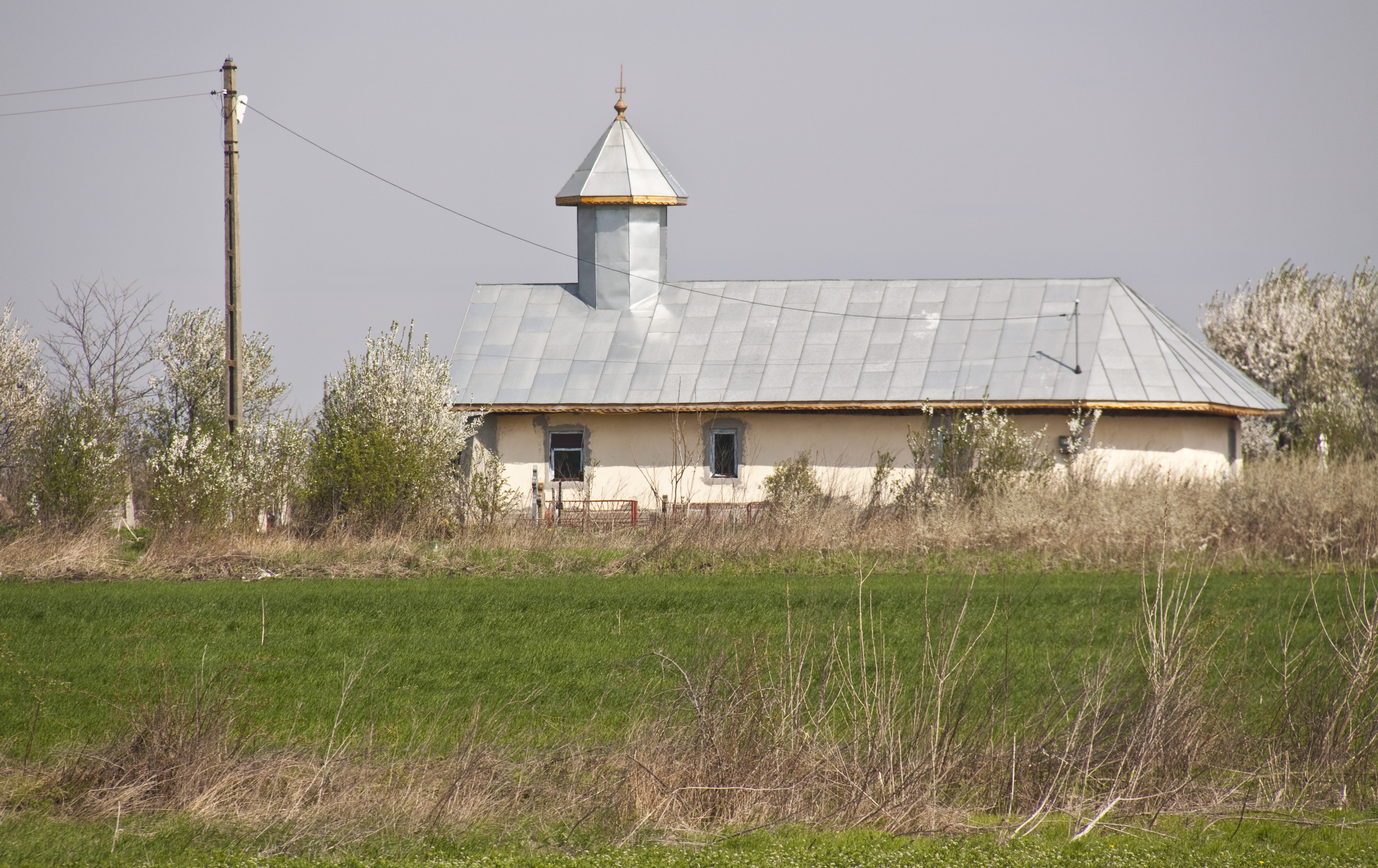 Ludăneasca, Teleorman county, Romania: the wooden church.